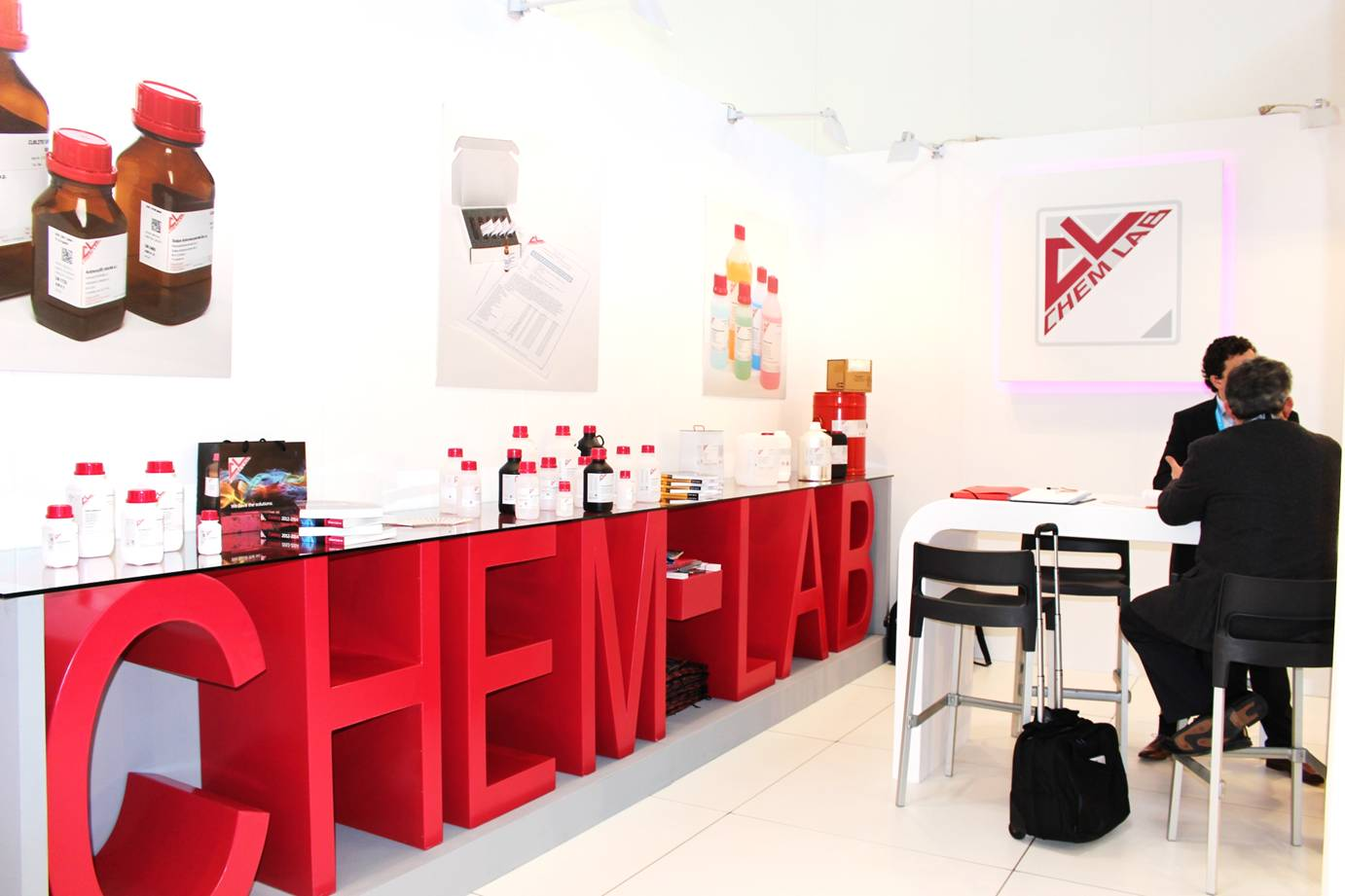 It is about Analytical 2014 that chemlab attend